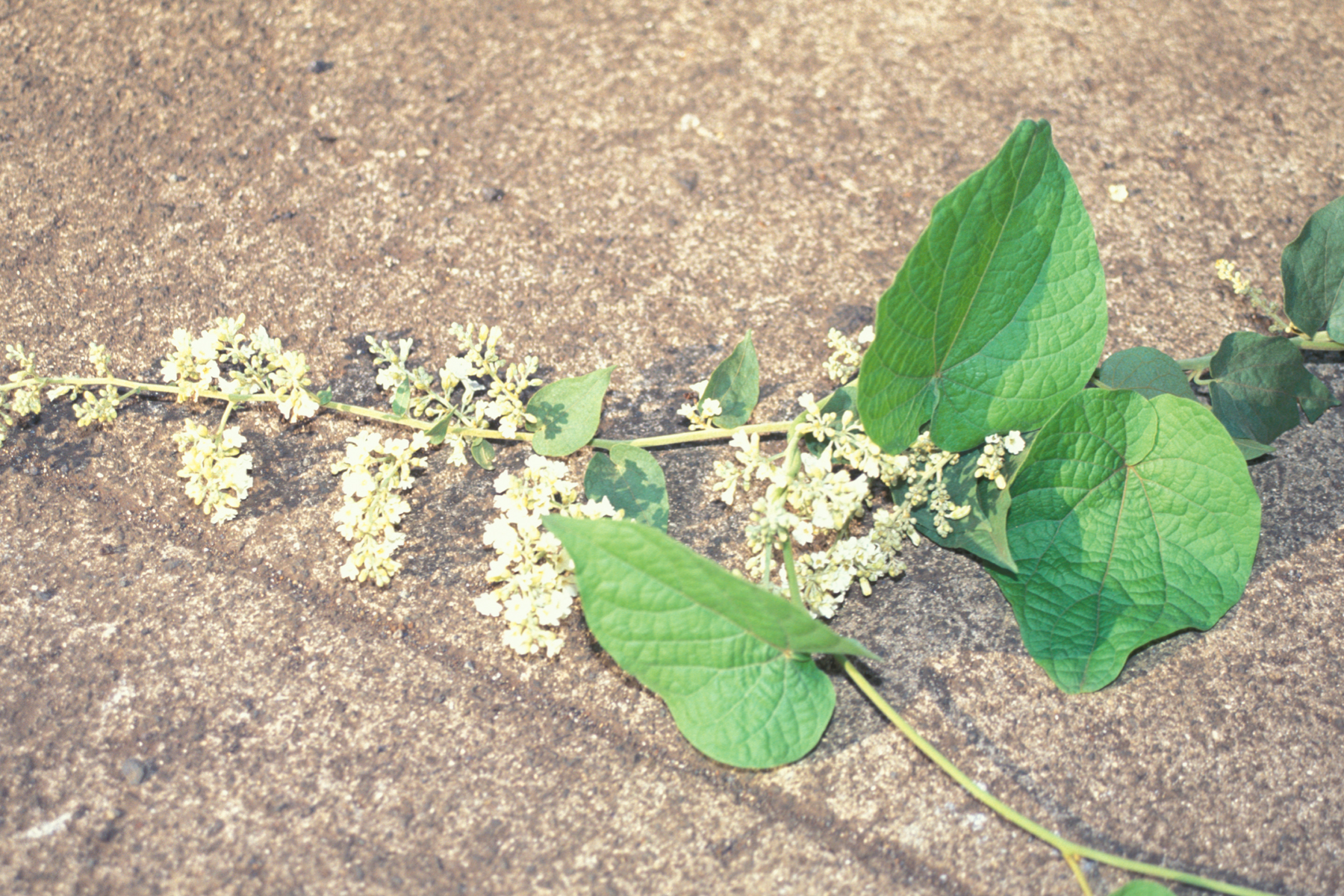 Poranopsis paniculata (flowers). Location: Maui, Makawao